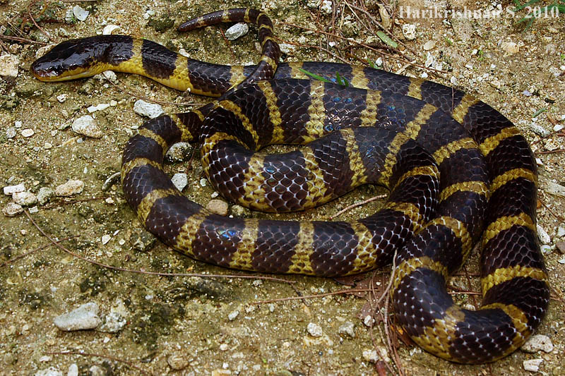 Andaman krait from Long Island, Middle Andamans